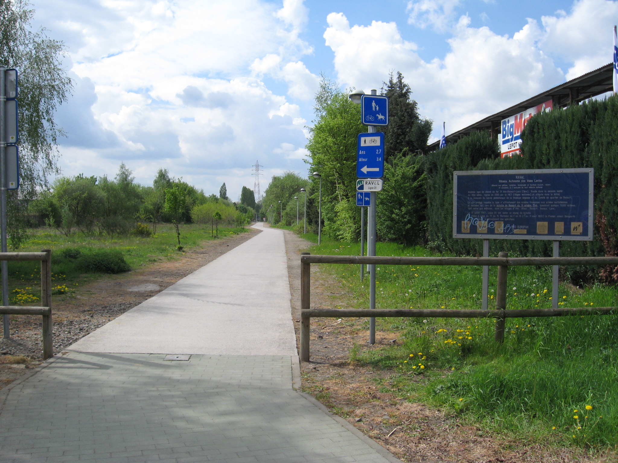 Railway 31 in Rocourt, Liège, Belgium